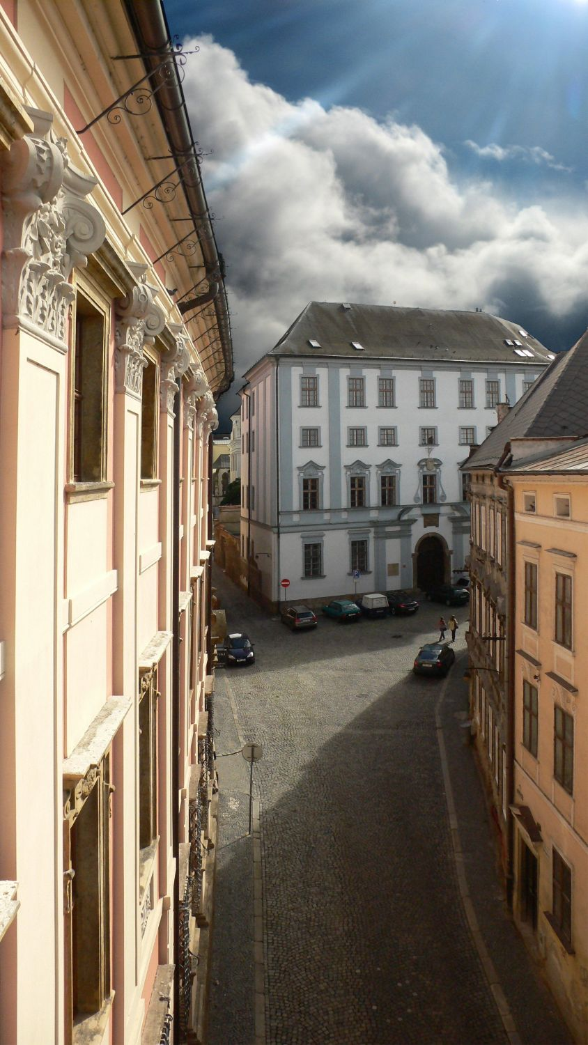 Palacký University of Olomouc, Art Centre on the left, Faculty of Theology in middle, Archbishop's Palace on right